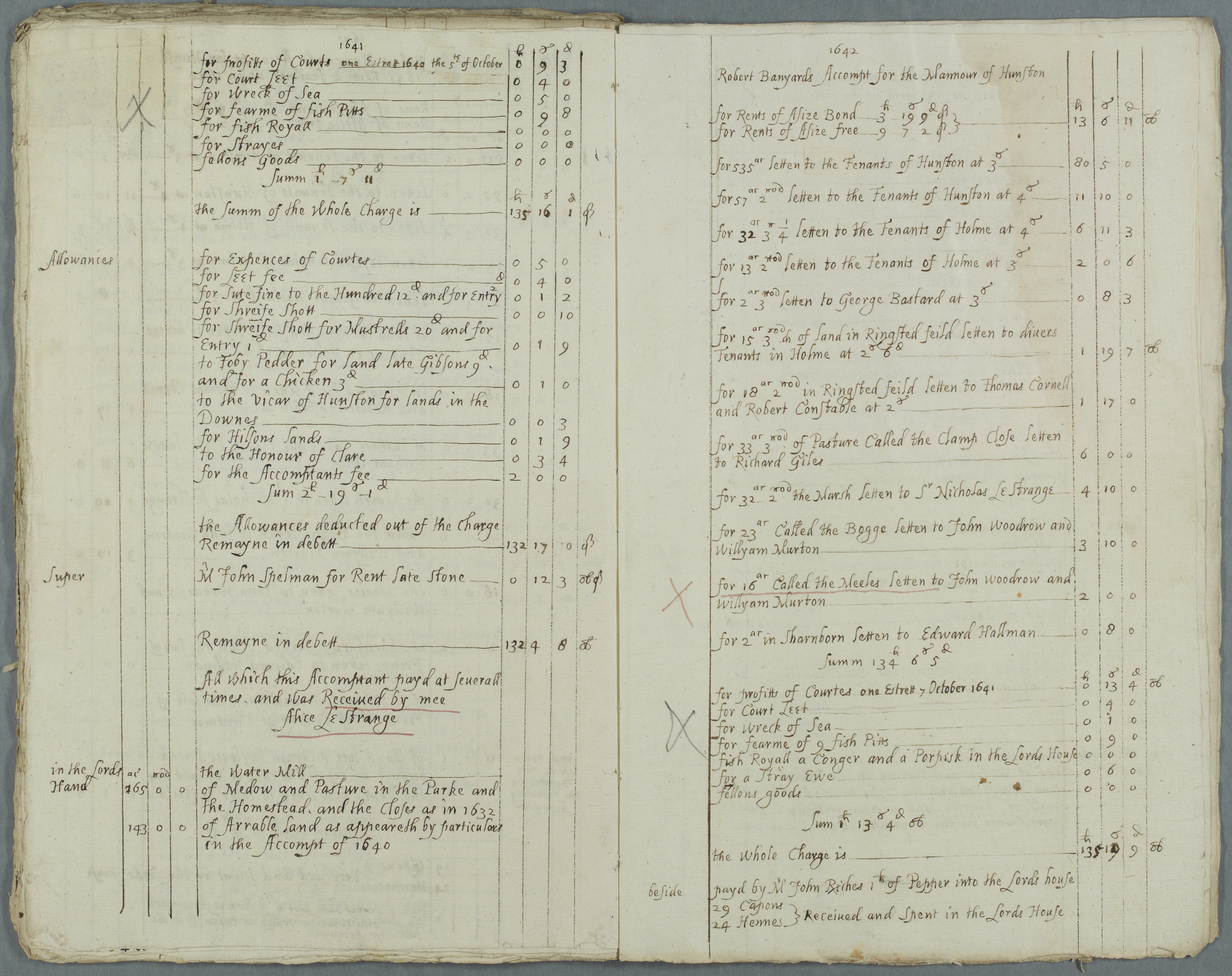 Alice L'Estrange's rental agreement ?? 1632-1653